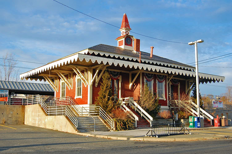 MBTA commuter rail stop for Swampscott, Massachusetts. A Victorian Era building which appears to be built in the Stick style.